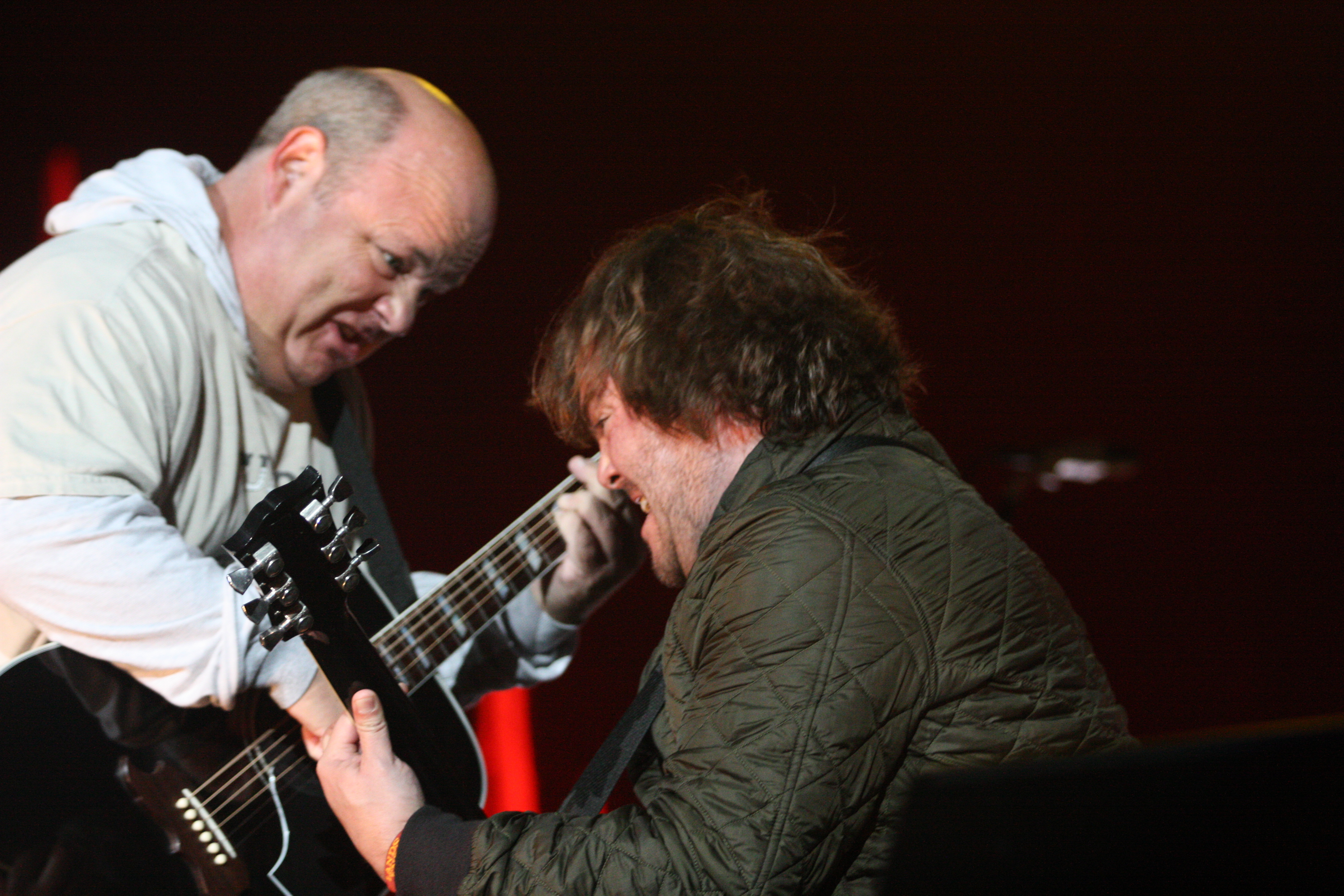 Kyle Gass and Jack Black